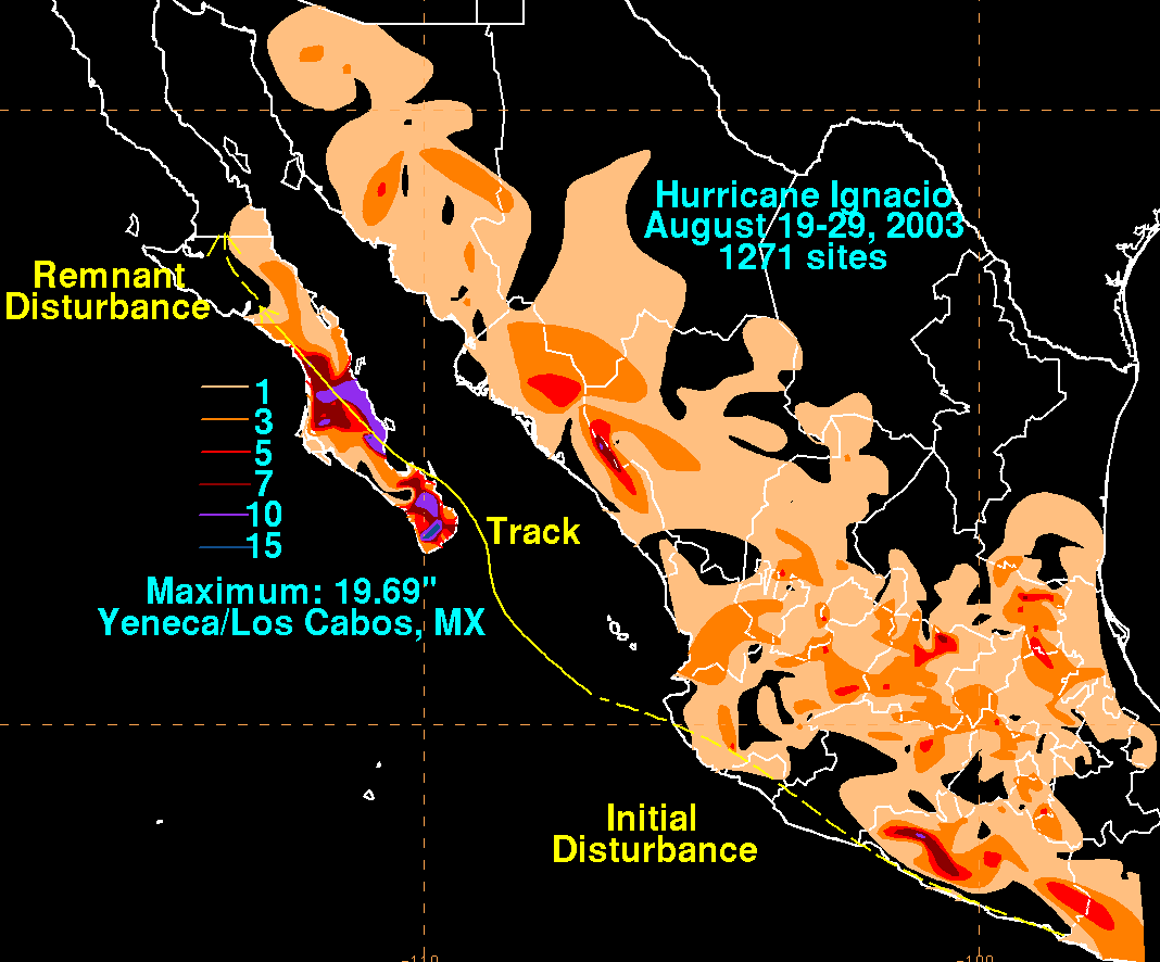 Rainfall produced by Hurricane Ignacio during August 2003.